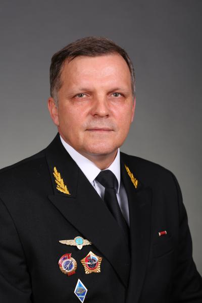 ostapchuk